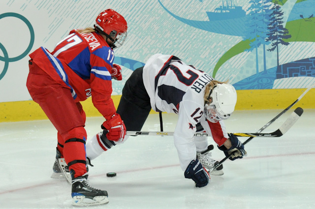 Women's Hockey, USA vs Russia, 2010 Vancouver Winter Olympics, Feb. 16, 2010